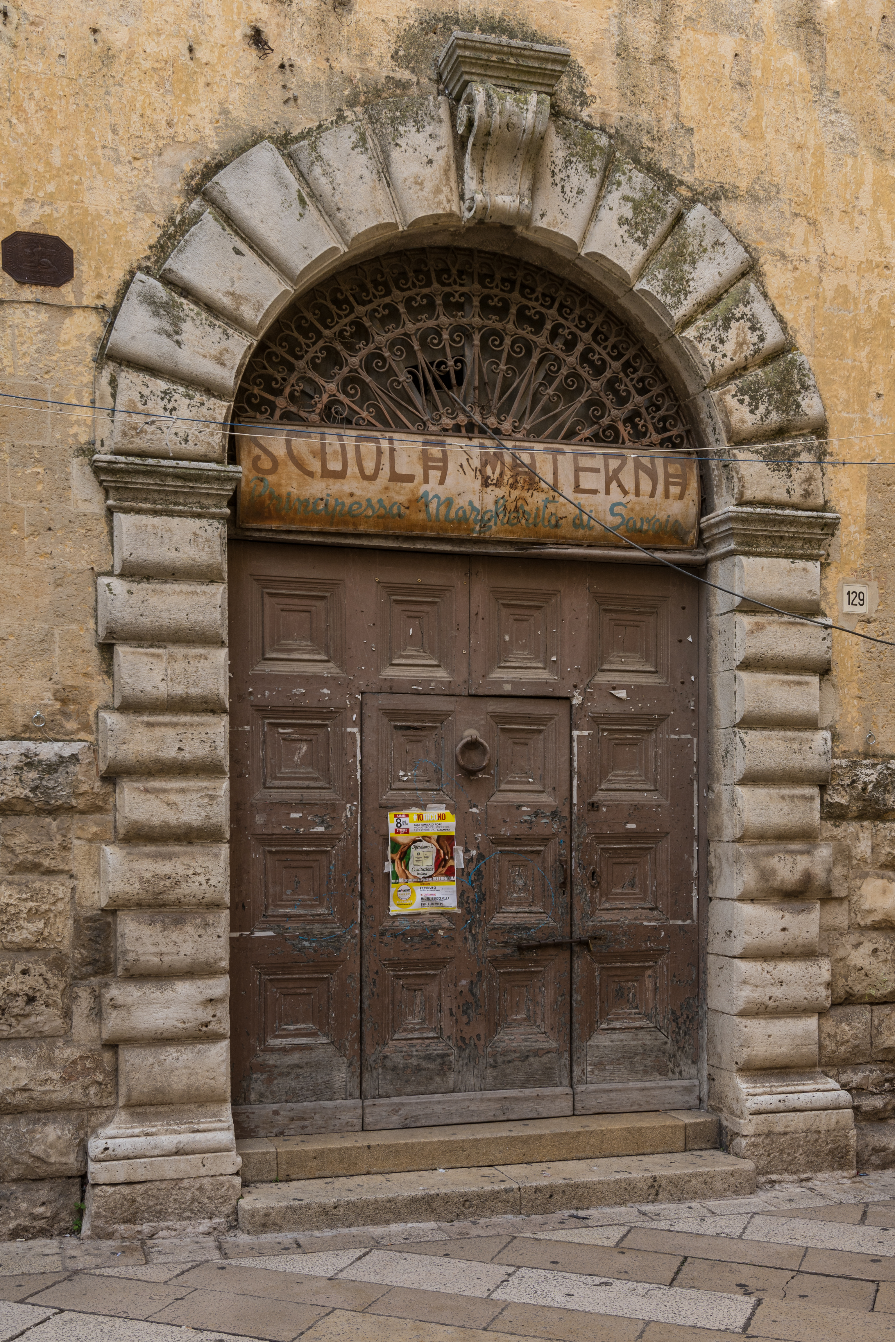 Portal of the former preschool of the Monastery in Corso Federico II di Svevia. On the door a poster for an event of the political party "Movimento 5 Stelle".